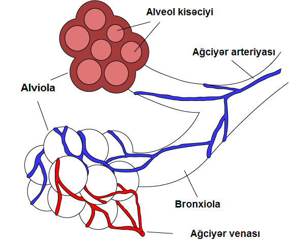 A diagram of the alveoli, both in cross section and externally